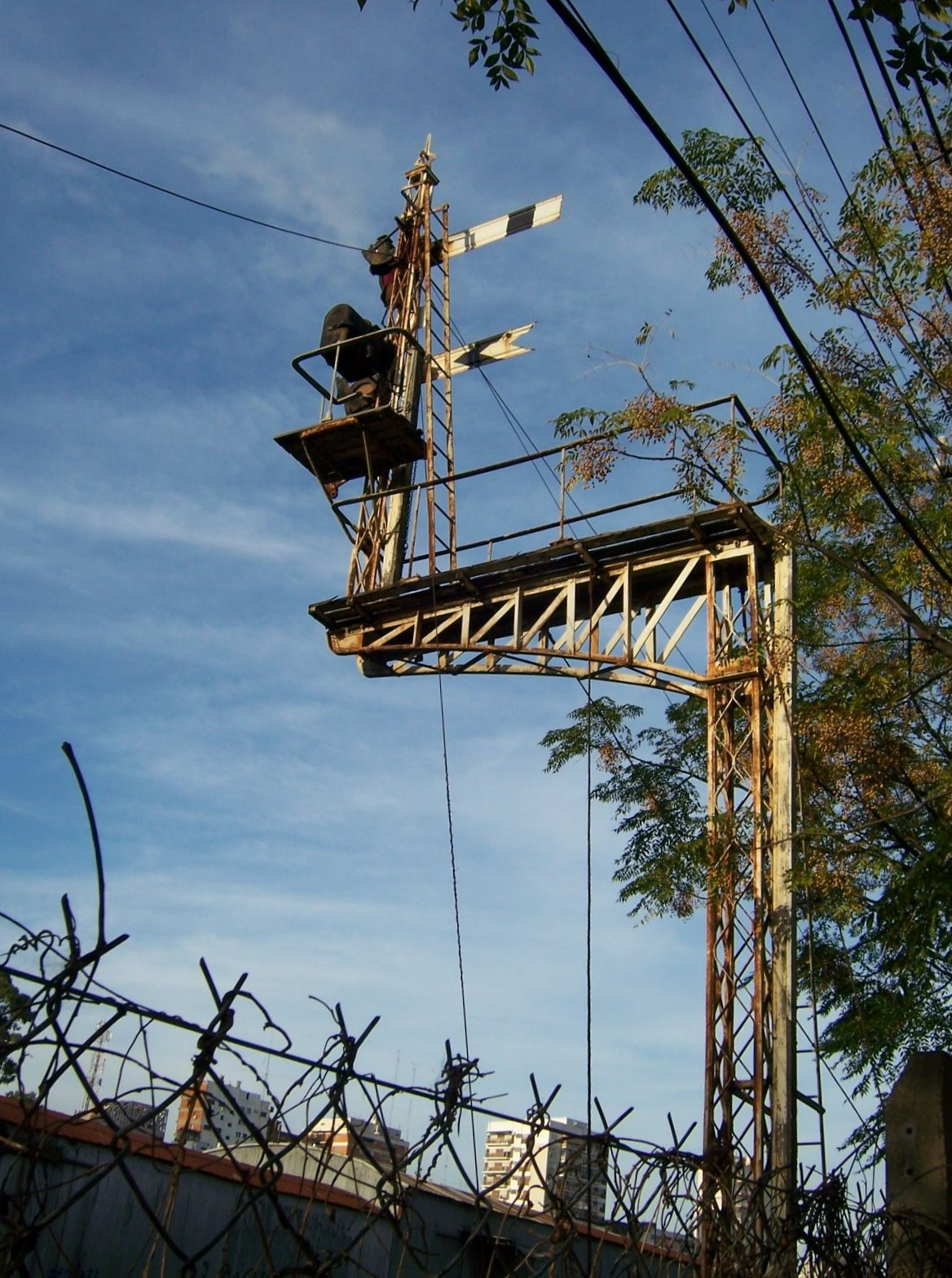 Lower quadrant railway semaphore